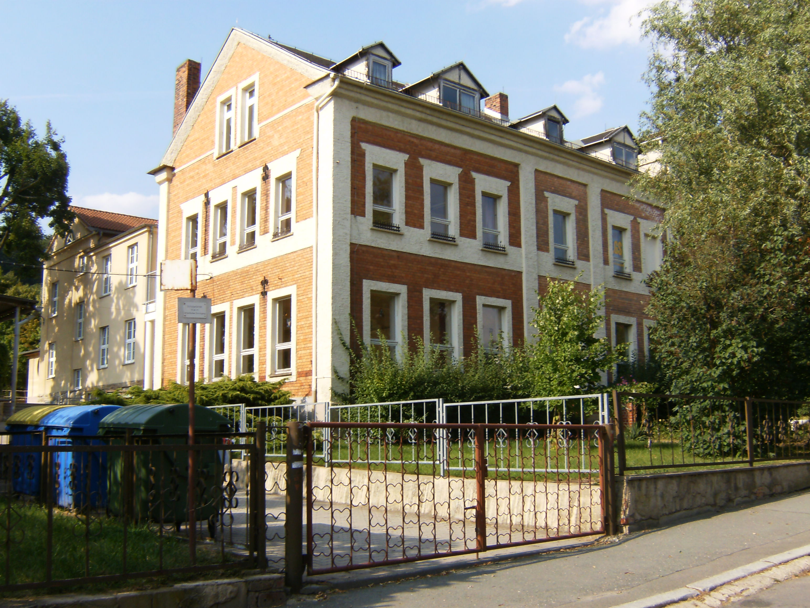 Gera Langenberg elementary school "Astrid Lindgren".